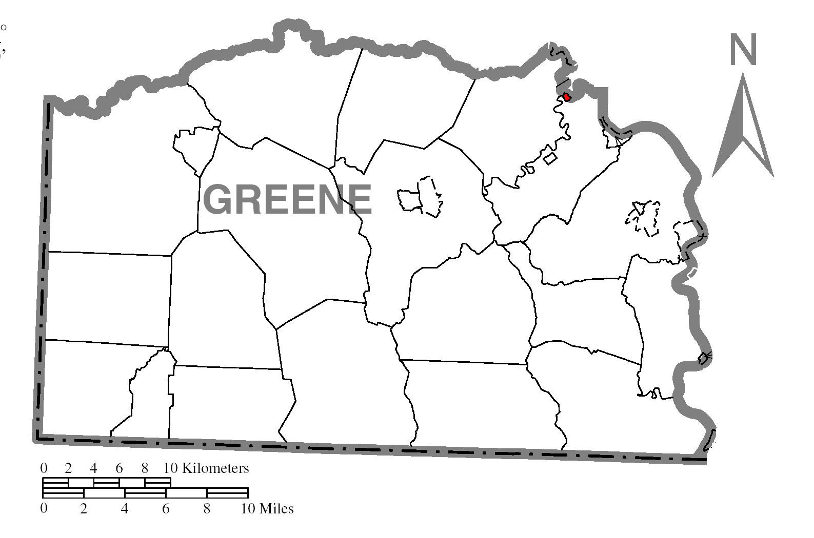 Map of Greene County higlighting Clarksville.